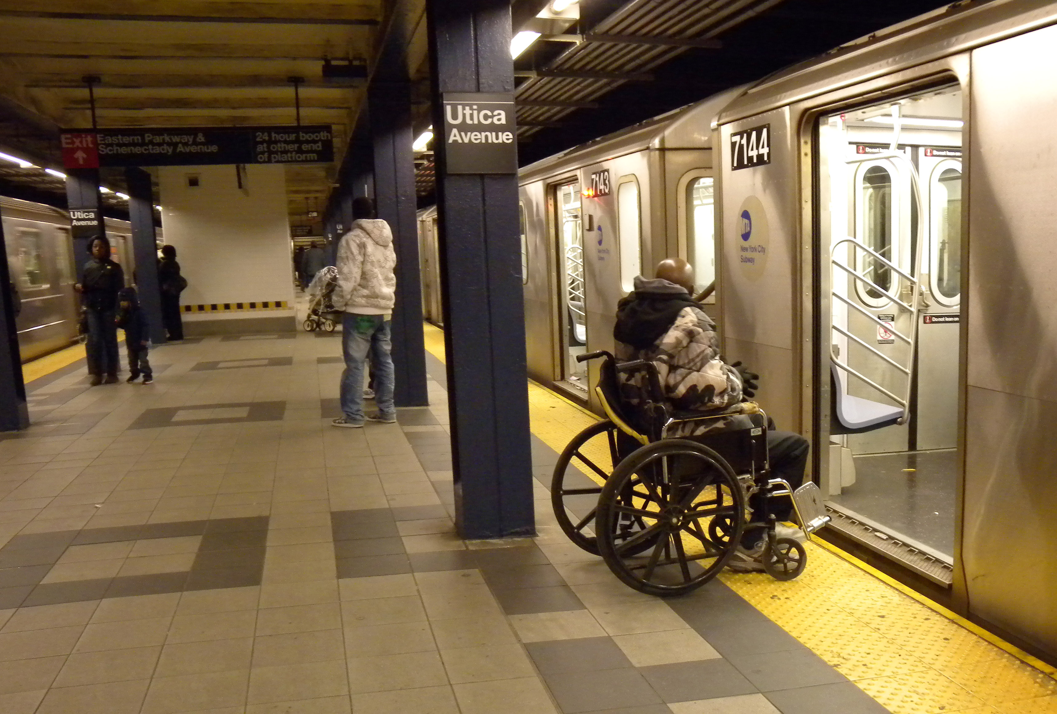 Looking east on eastbound (RR south) platform of IRT Crown Heights – Utica Avenue station.